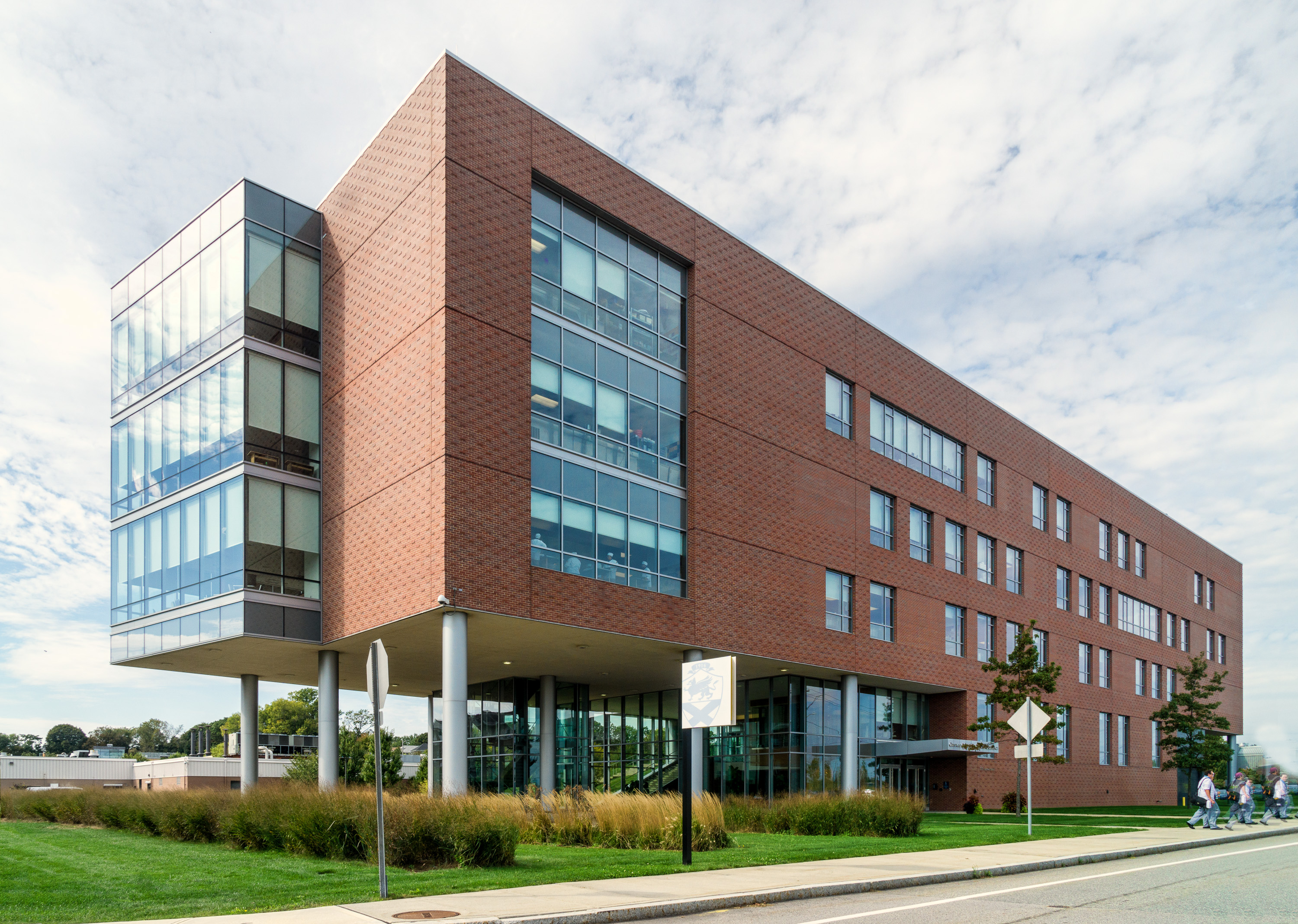 The Cuisinart Center for Culinary Excellence. Johnson and Wales University, Harborside campus, Providence RI